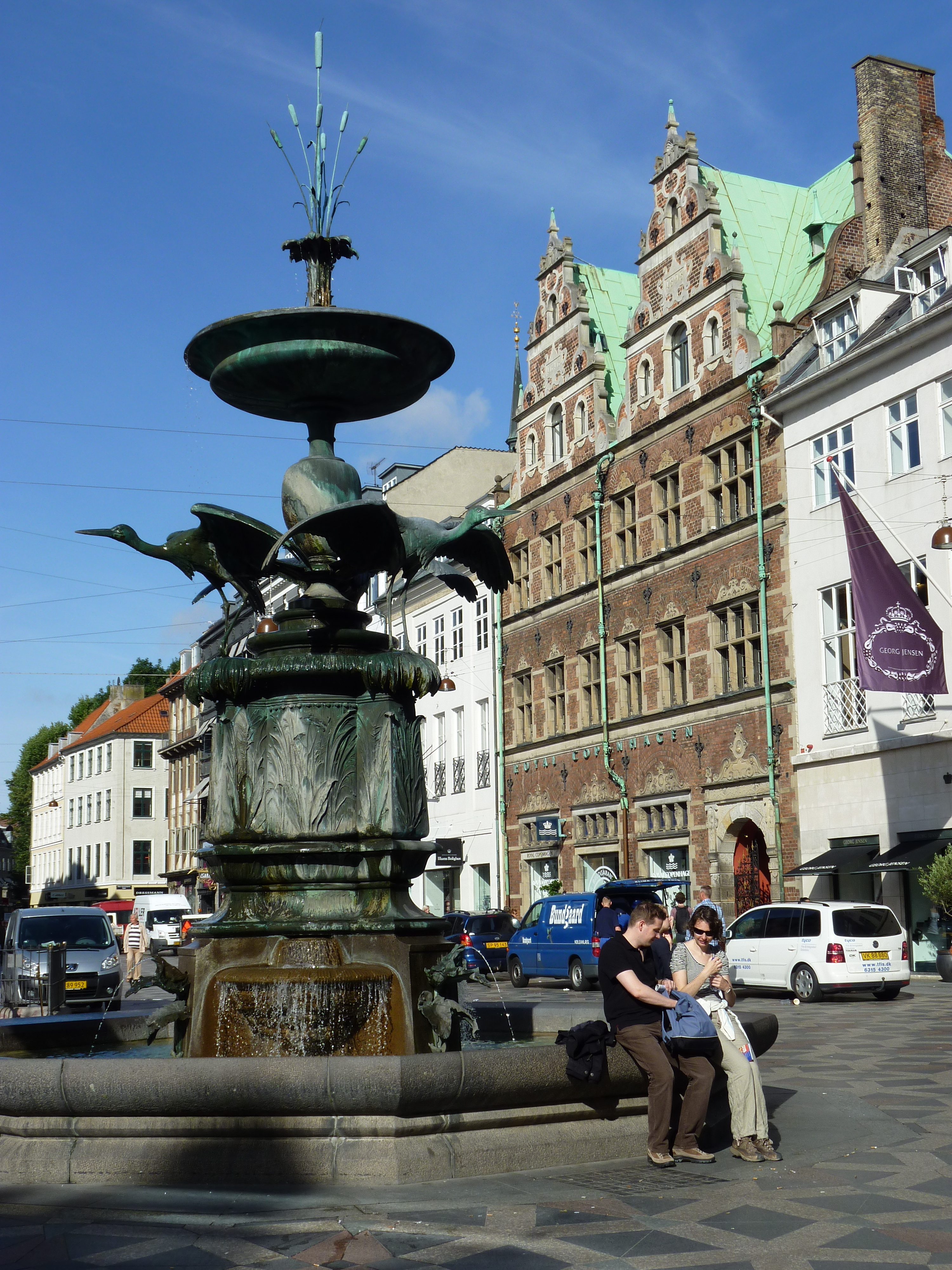 Amagertorv with the Stork Fountain in central Copenhagen, Denmark